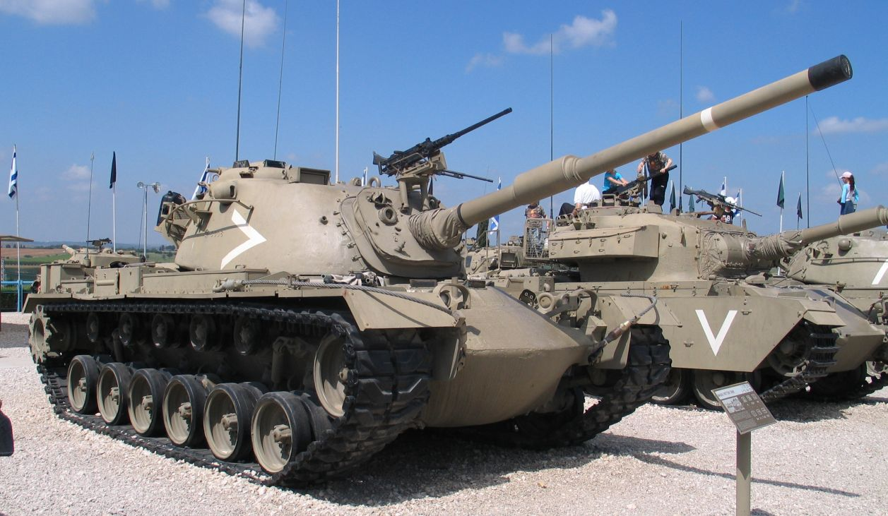 Israeli upgraded M48 Patton tank in Yad la-Shiryon Museum, Israel.